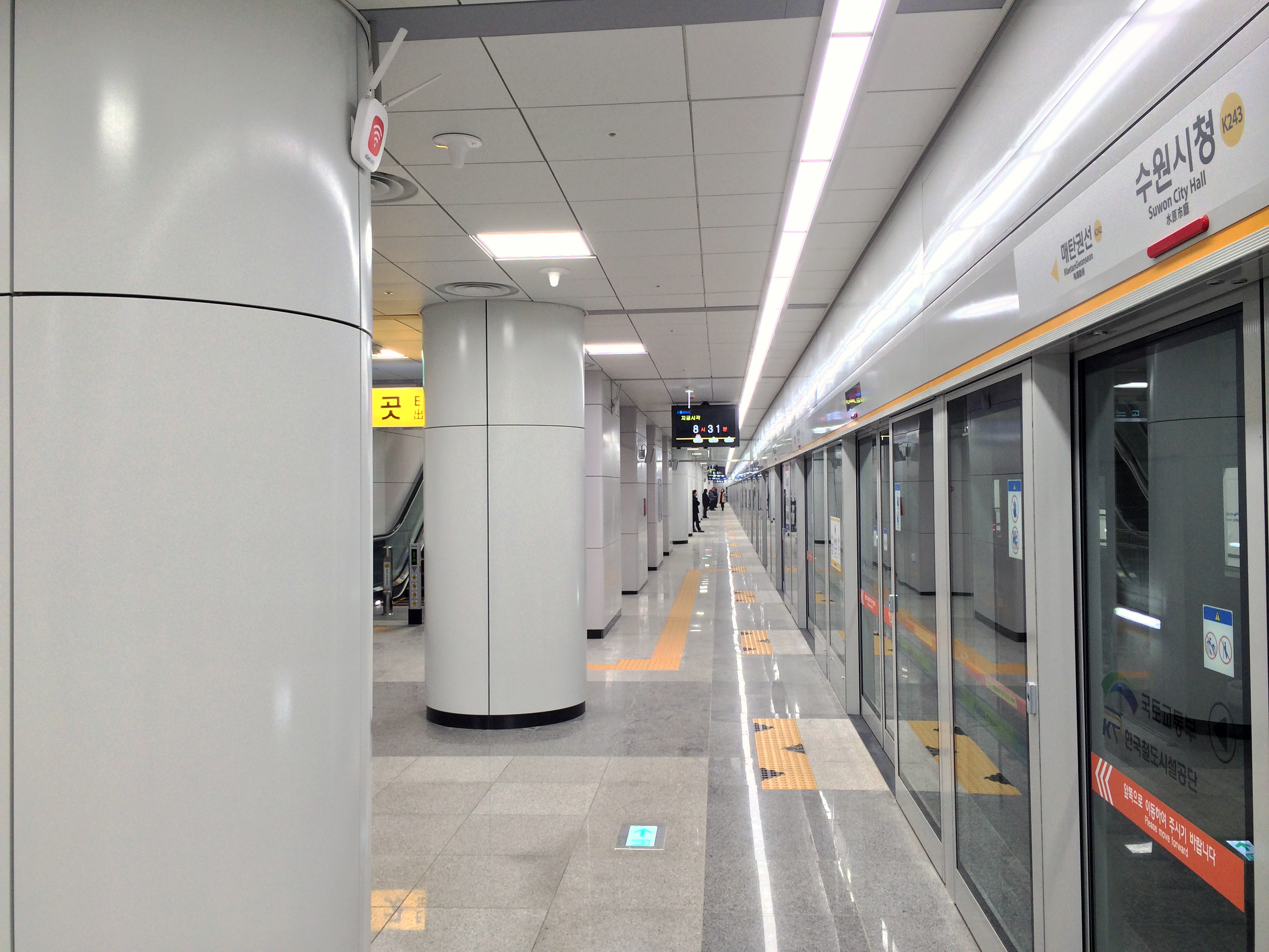 Platform of Suwon City Hall Station